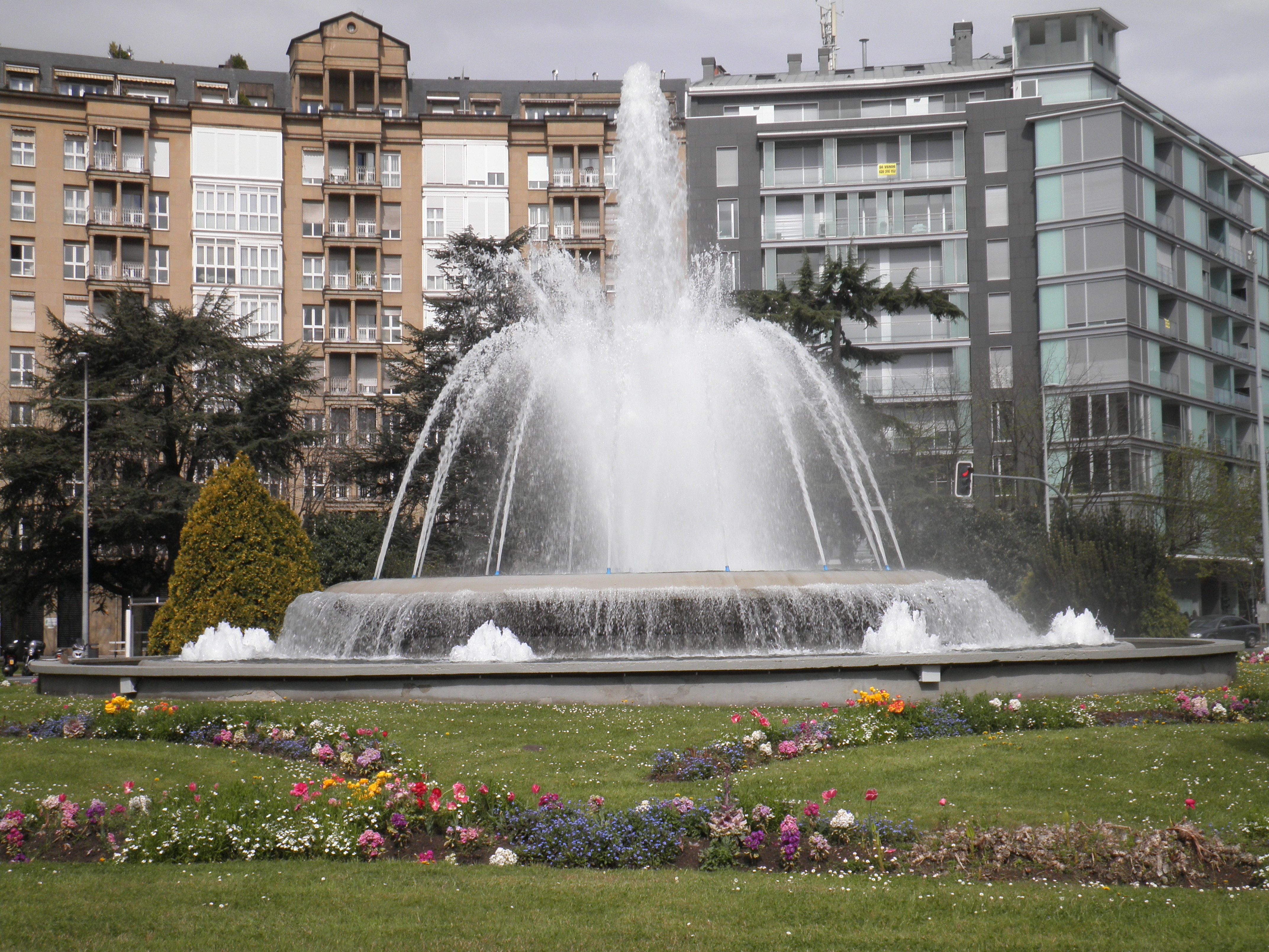 Fountain in Pio XII square, Donostia.